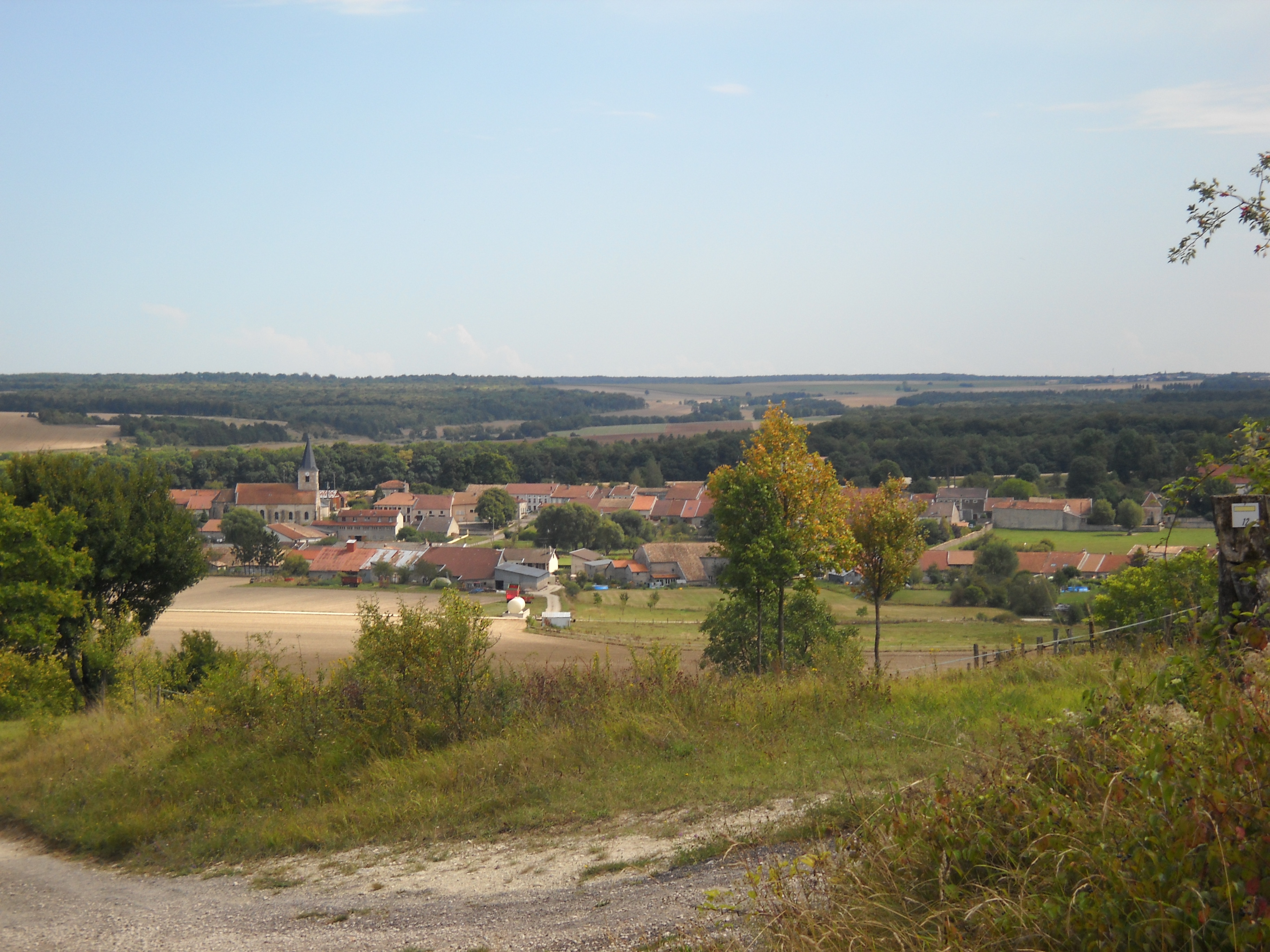 Overview of the village from a hill surrounding the village